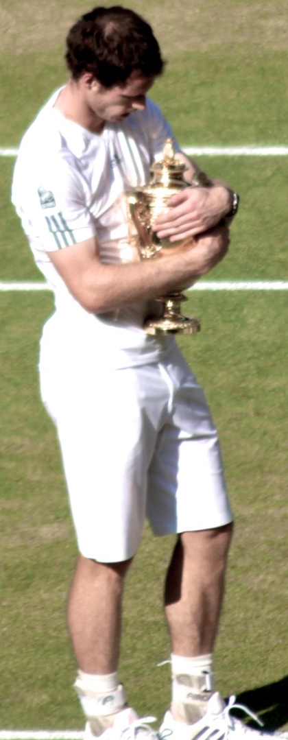 Andy Murray holding the Wimbledon trophy, which I cropped.